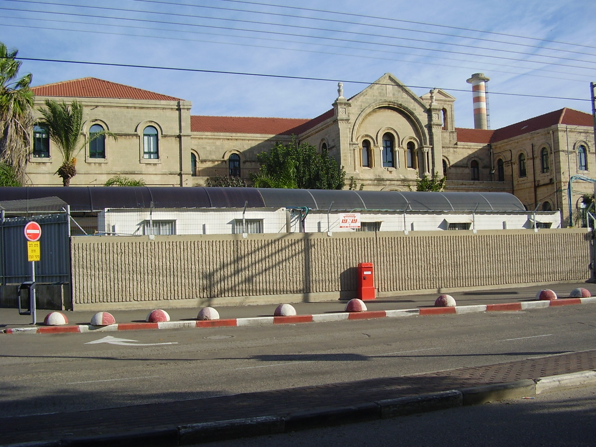 ex carmelite monastery in rambam hospital